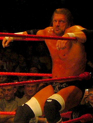 Triple H on WWE Wrestle Mania Revenge Tour in Milan (Italy)